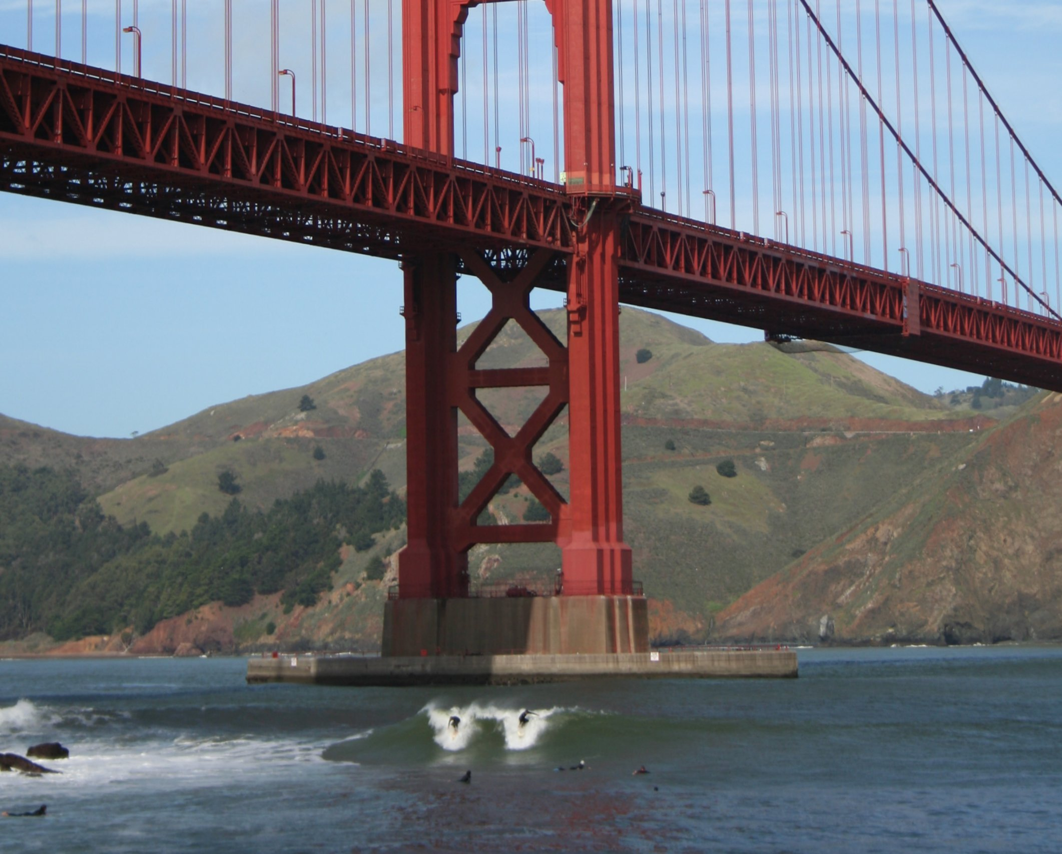 Photographed by and copyright of (c) David Corby (User:Miskatonic, uploader) 2006 Surfing under the Golden Gate Bridge. Yes this is a real image! The only thing done to it was that it was cropped. As strange as it looks people really do surf under the Golden Gate Bridge.